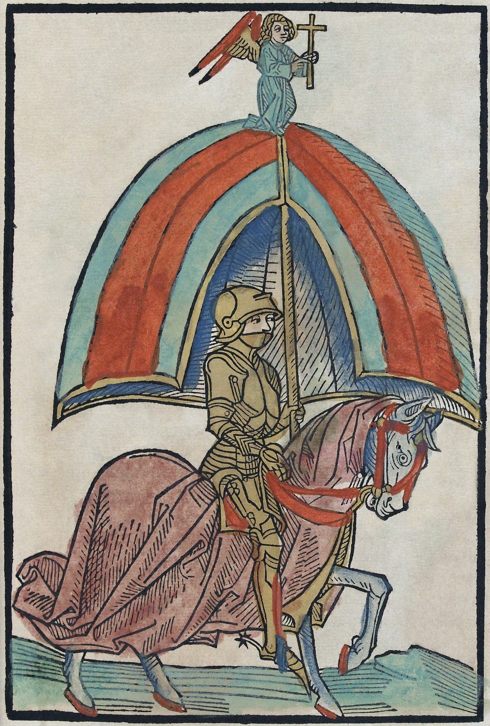 Illustration of a knight in Gothic armor from Concilium zu Constanz woodcut (digitized page 34 of 509)